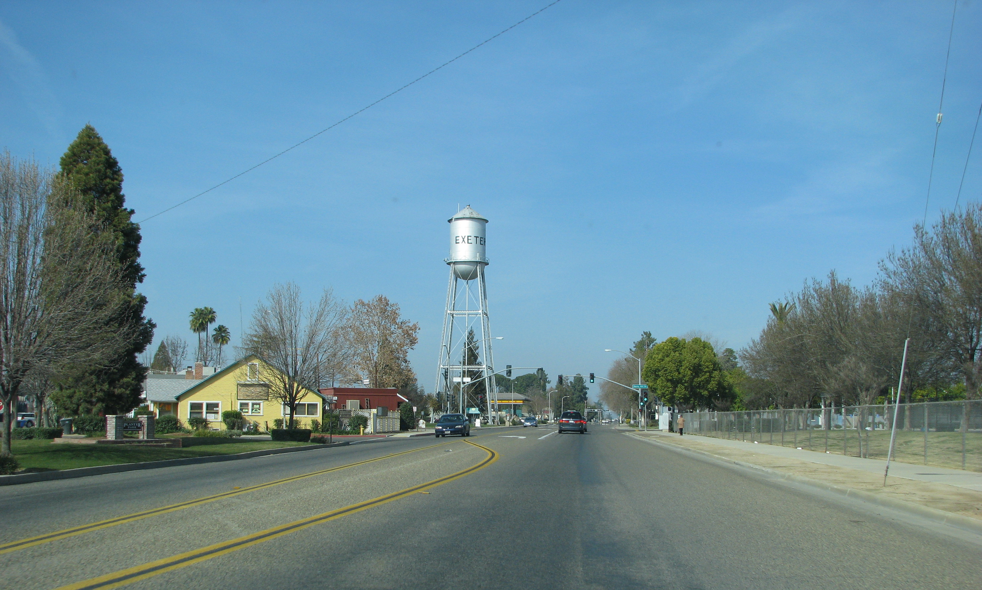 Ca-65 (northbound) near Exeter, California.